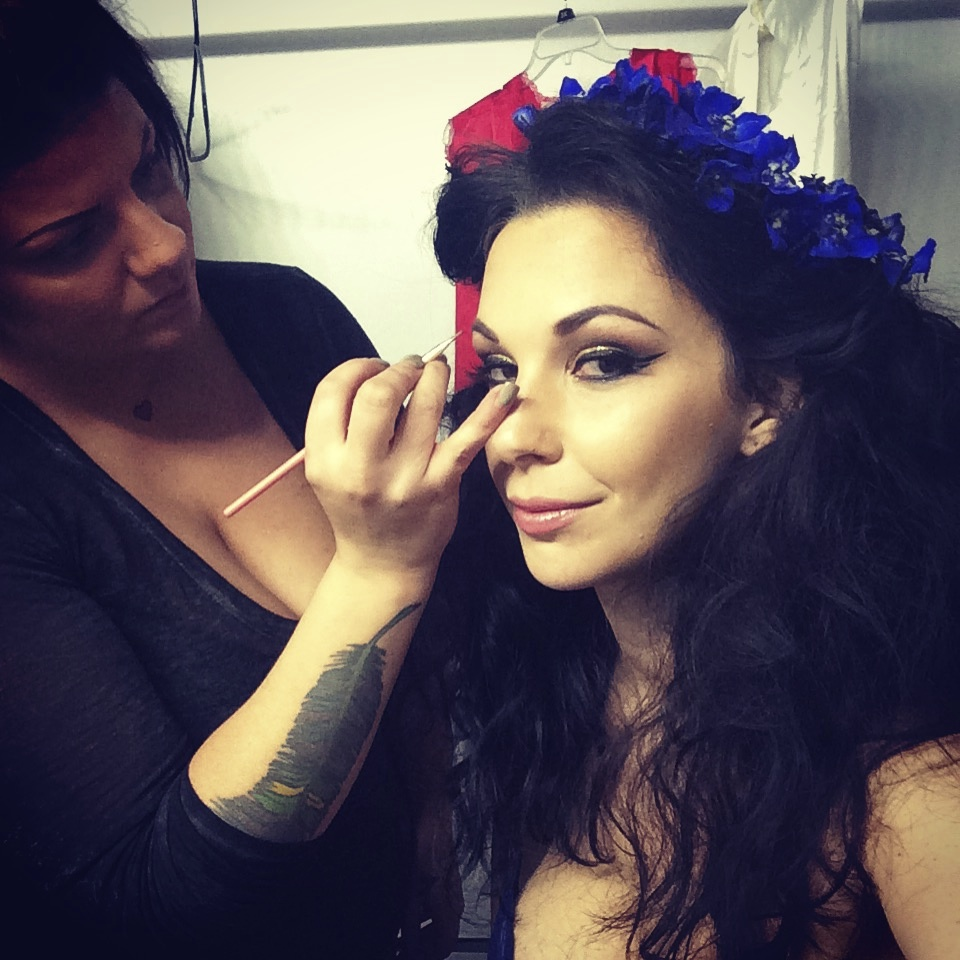 Gin Cooley with makeup artist Samantha Gunn